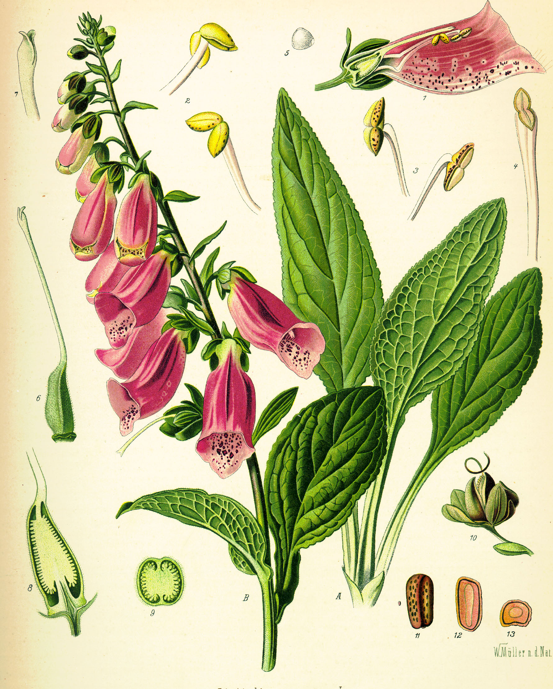 Digitalis purpurea, Drawing depicting Digitalis purpurea, from Franz Eugen Köhler's Medizinal-Pflantzen. Published and copyrighted by Gera-Untermhaus, FE Köhler in en:1887 (en:1883–en:1914). The drawing is signed W. Müller. Source [1].